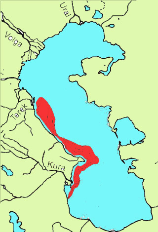 The range of Benthophilus ragimovi